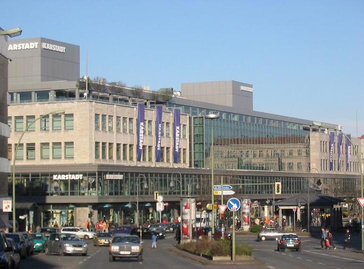 Hermannplace in Berlin-Neukölln, border to Berlin-Kreuzberg. The department store „Karstadt“ belongs to Kreuzberg.